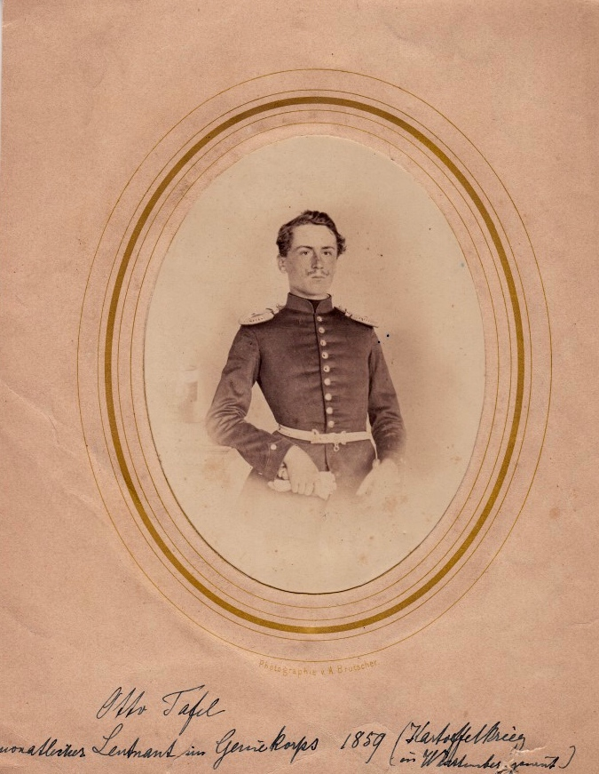 Emil_Otto_Tafel_(1838-1914)